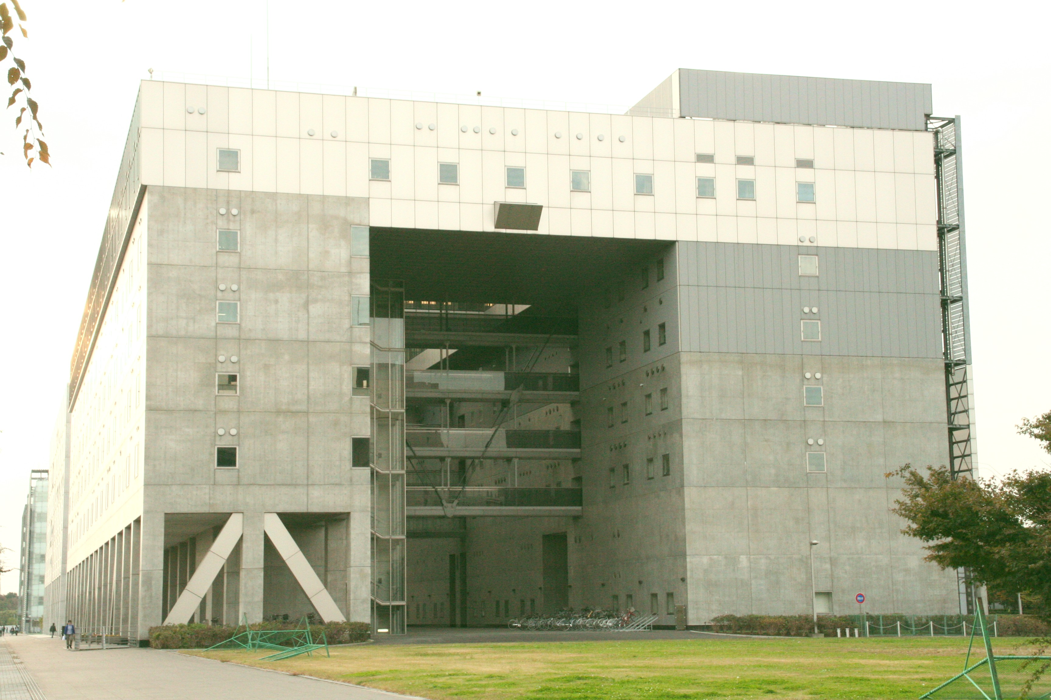 Institute for Cosmic Ray Research. Kashiwa canpus, Tokyo University. 東京大学宇宙線研究所が入居しているビル。